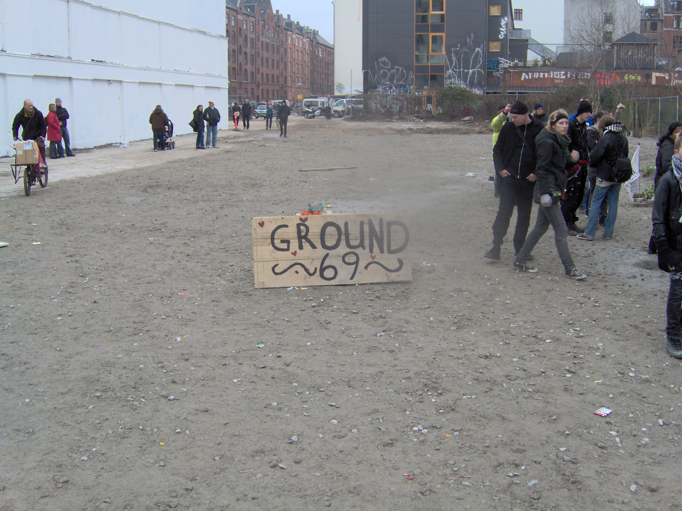 The ground where Ungdomshuset was located. The building was demolished on March 5th, 2007. The name "Ground 69" refers to the term "Ground zero", where zero has been replaced with the ground's house number.